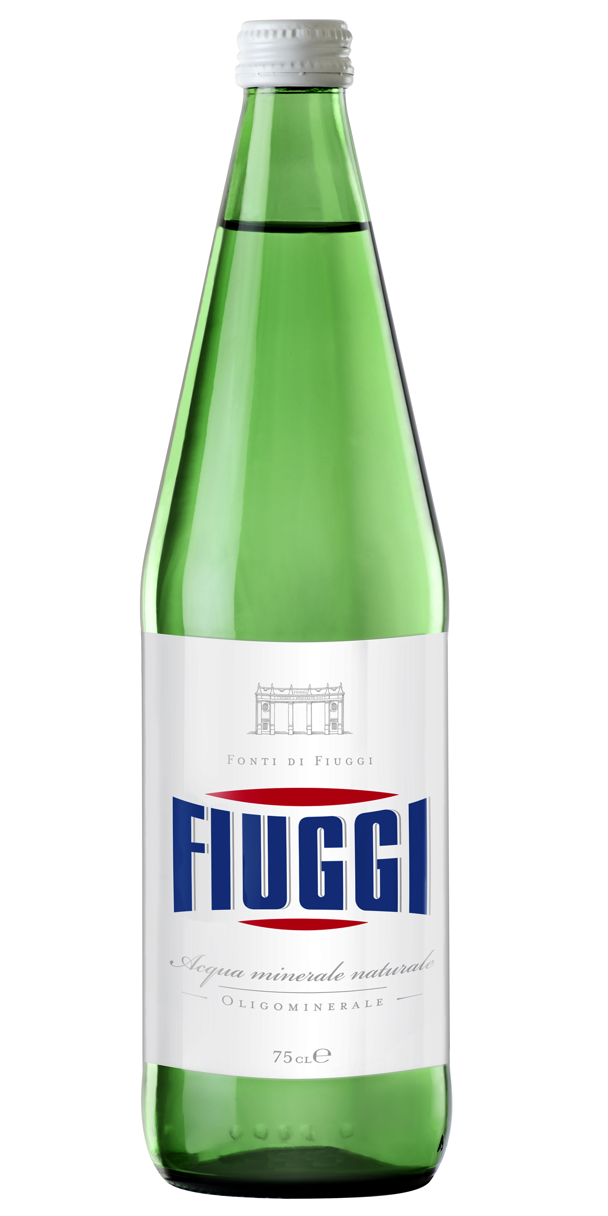 Natural Version